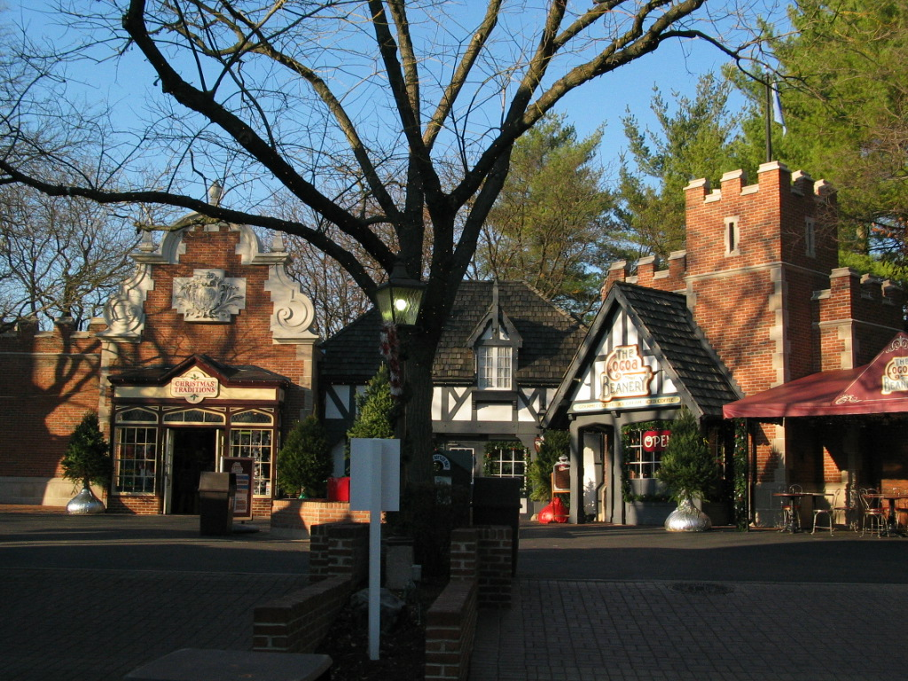 The gift shops in the Hershey Park